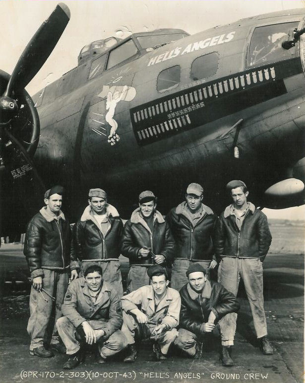 USAAF B-17 "Hells Angels" of the 303d Bombardment Group, RAF Molesworth, 1943